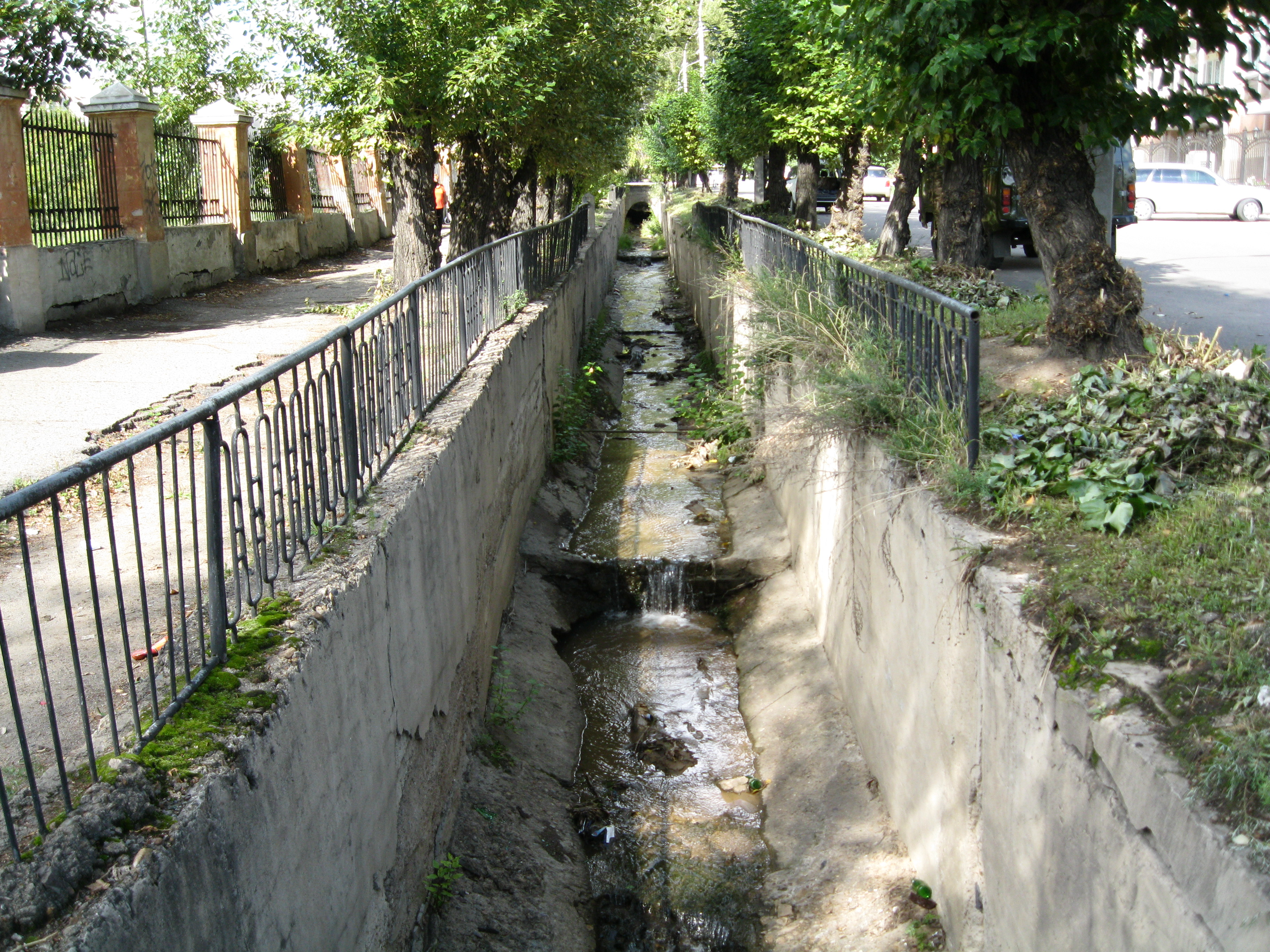 Kaydalovka river in Chita, Russia